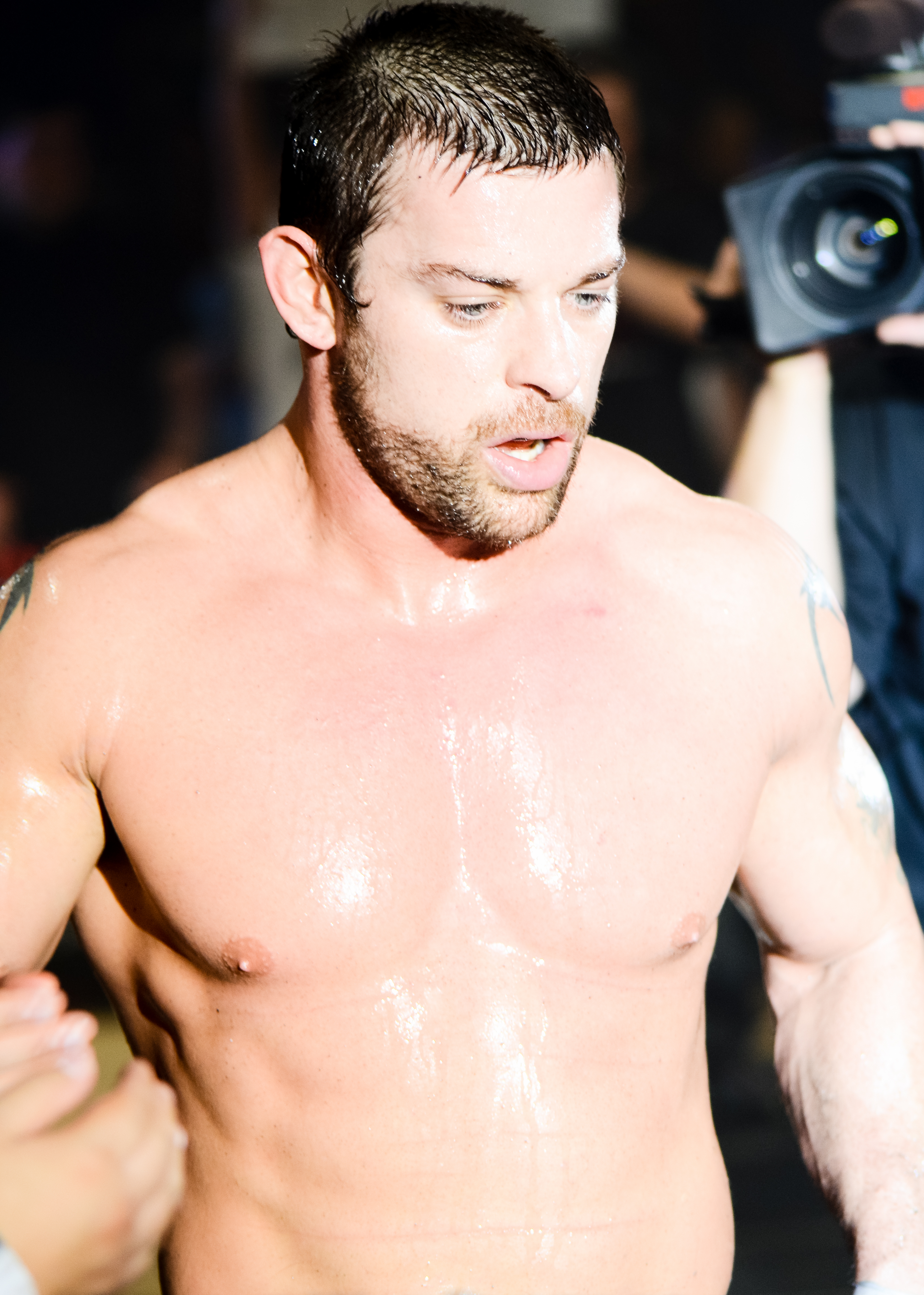 Davey Richards at a Ring of Honor show on August 13, 2011.